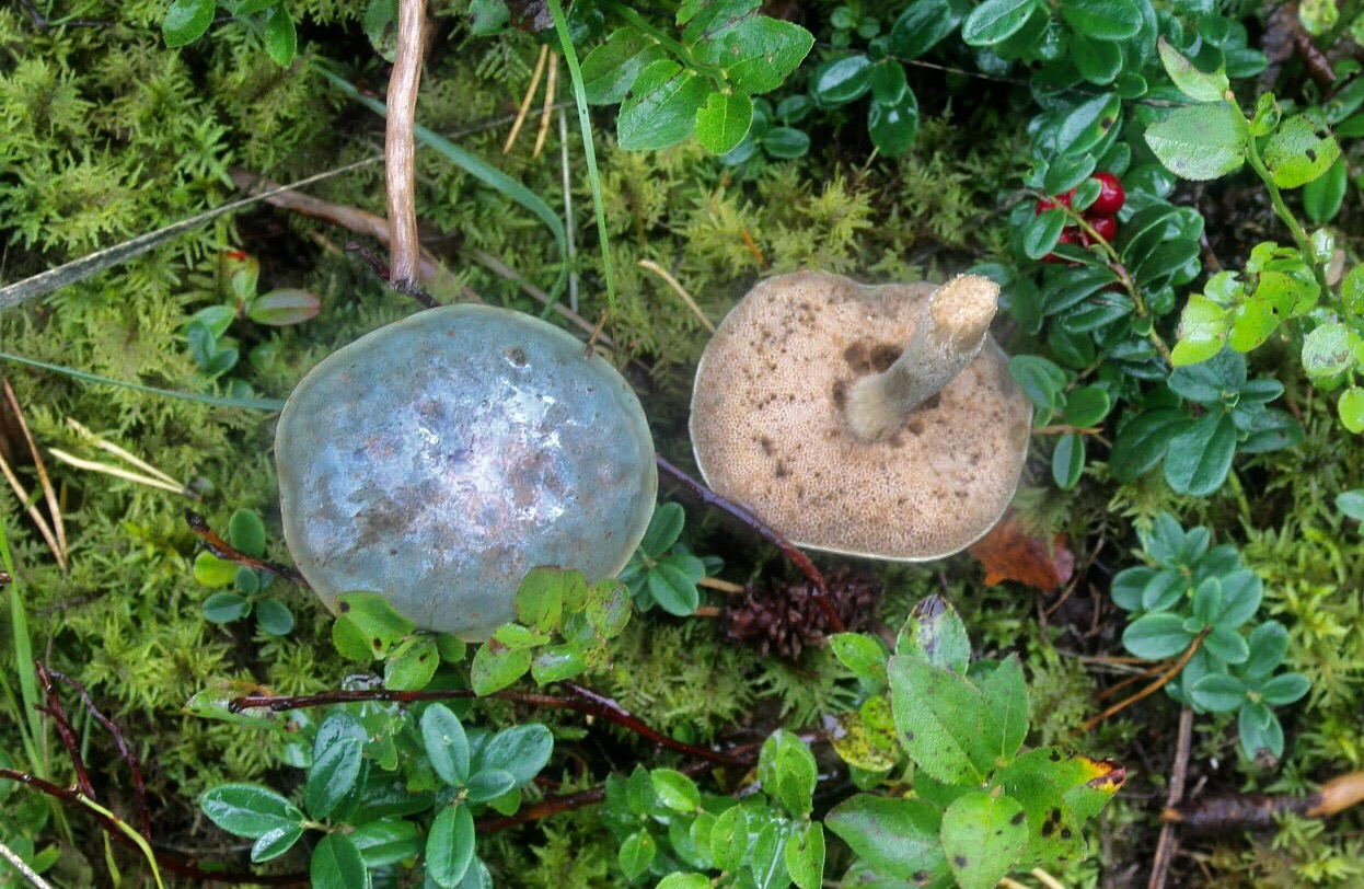 Two old Leccinum holopus in Latvia, Inčukalns parish.